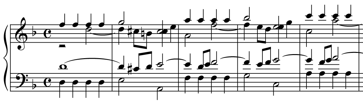 Fugue subject and countersubjects from the fourth movement of Joseph Haydn's Symphony No. 70 in D major. Entered into Finale and cleaned up in Adobe Photoshop.